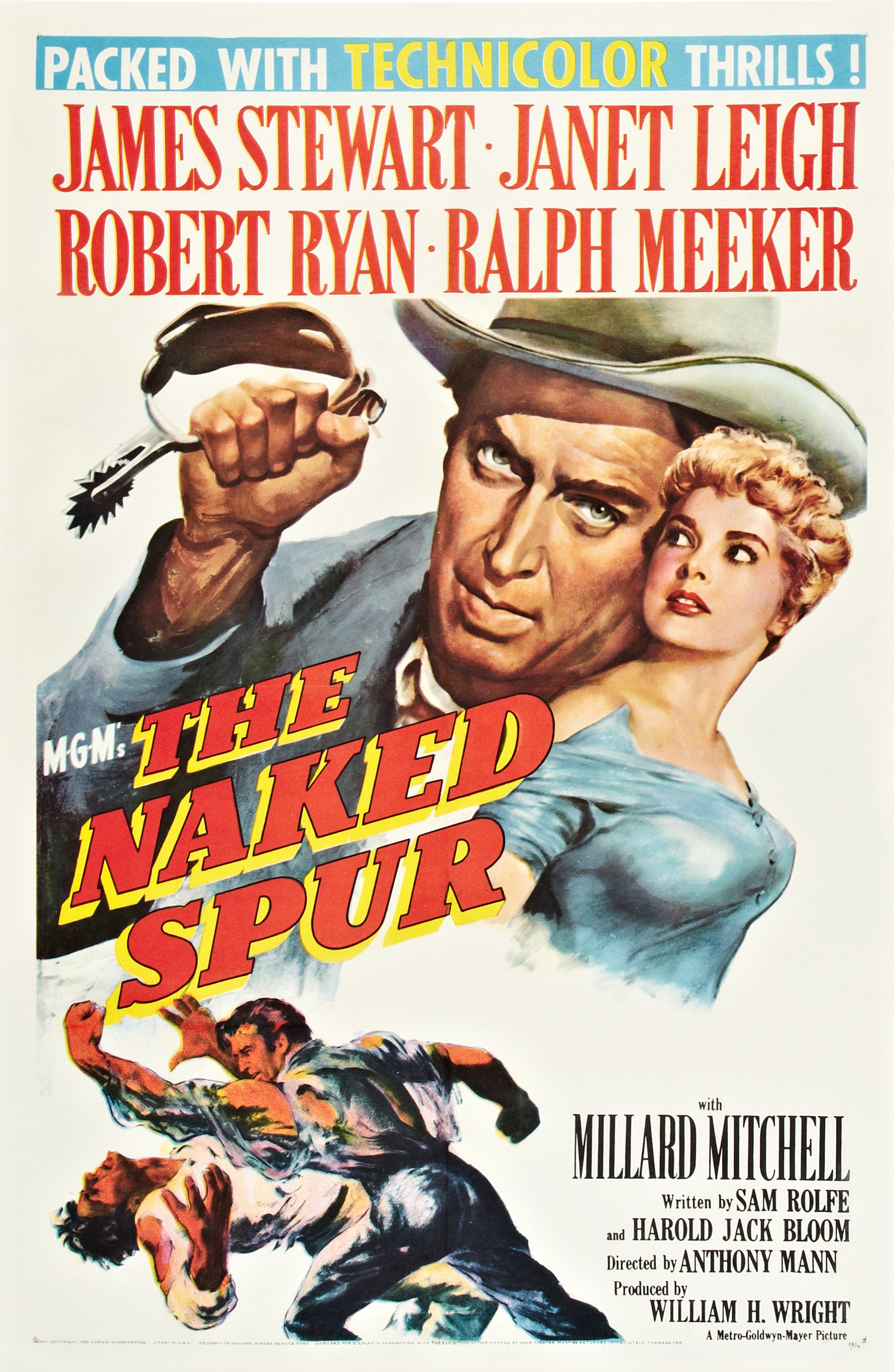 Poster for the American theatrical run of the 1952 film The Naked Spur.